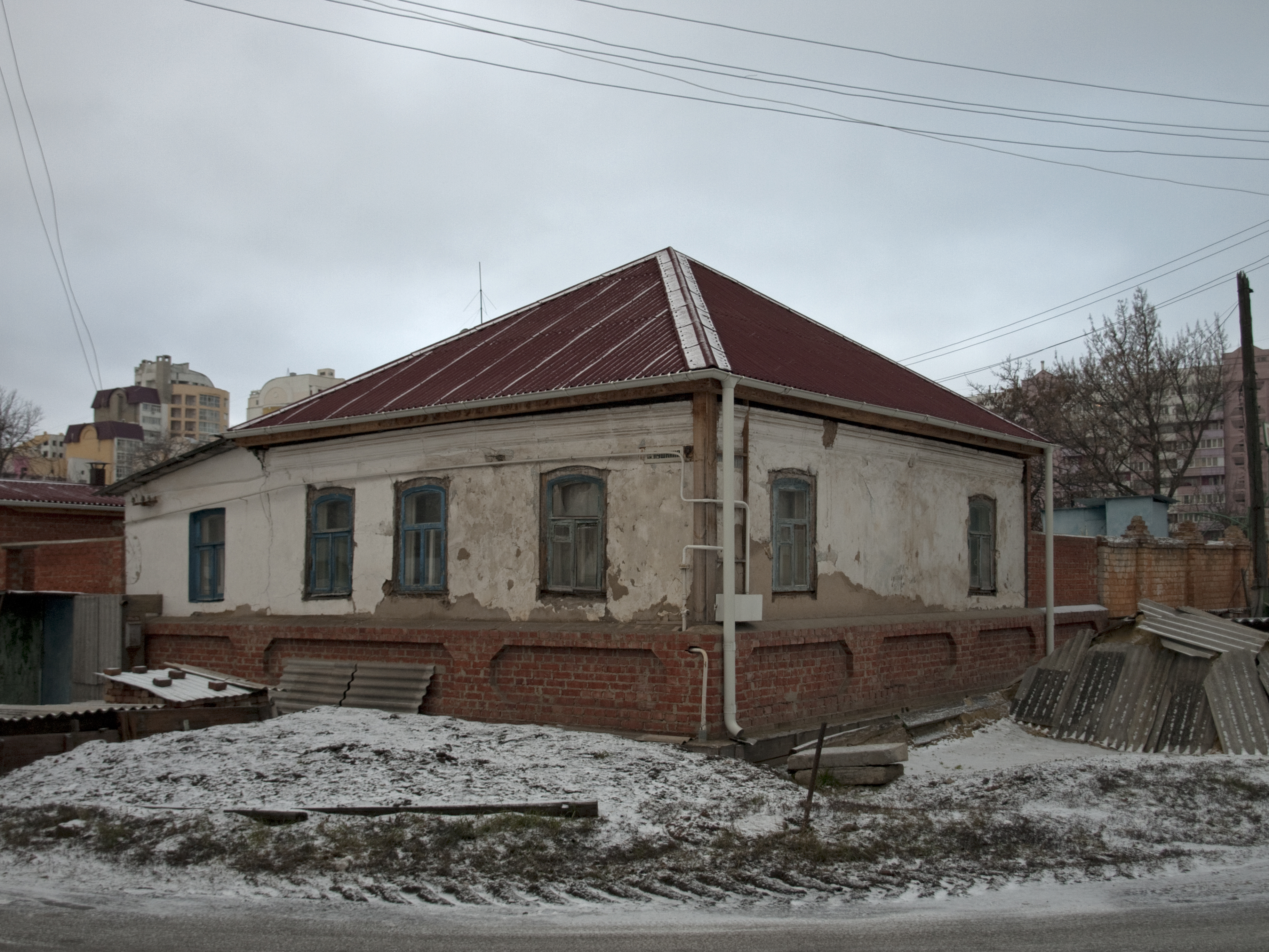 Pushkina Street 27, Belgorod